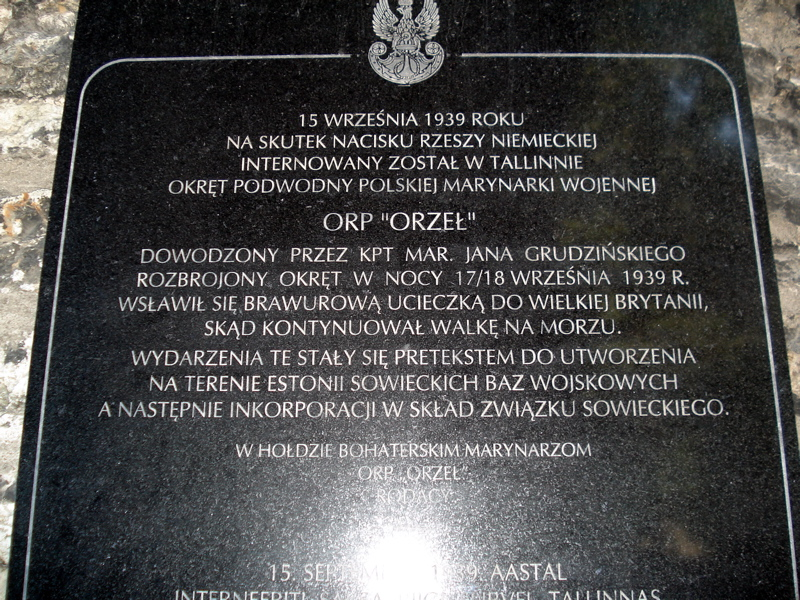 Tablet on the wall of the Maritime Museum in Tallinn, commemorating the escape of the Polish submarine ORP Orzeł from the port of Tallinn, which occurred on the night of 17/18 September, 1939, after the ship entered the harbor on September 15 and was interned by the Estonian government acting under German pressure. The submarine's escape served as a pretext for the USSR to establish military bases in Estonia, which then led to the annexation of the country into the USSR. Photo taken on July 8, 2006. Source: Photo by me, User:Balcer.